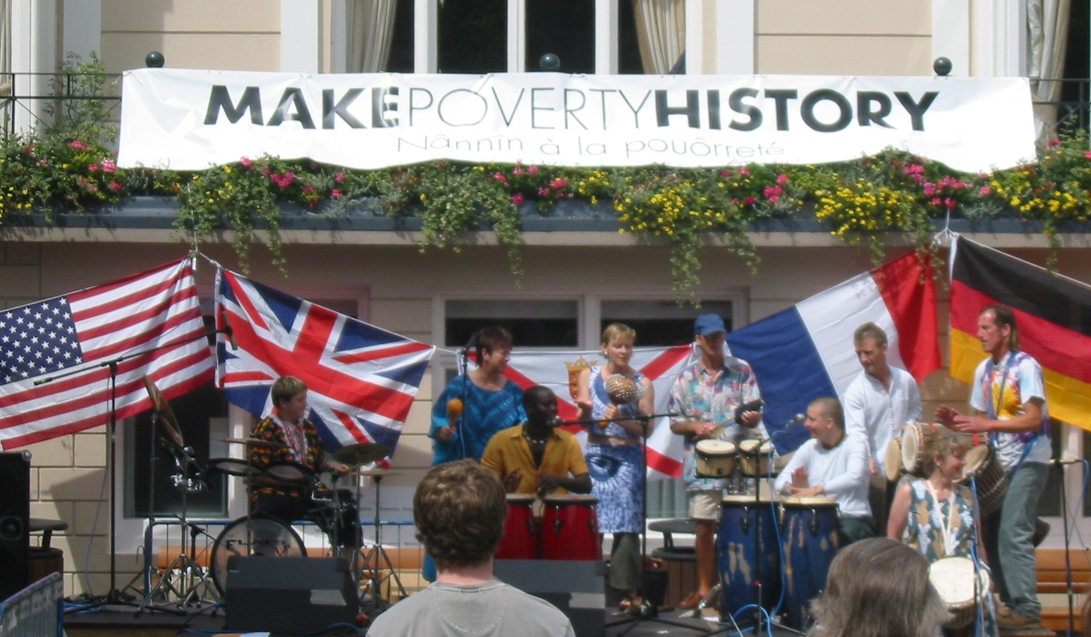 Event for Make Poverty History in the Royal Square, Jersey, 2nd July 2005